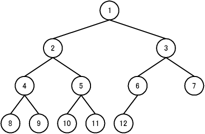 Indexing of binary heap structure.